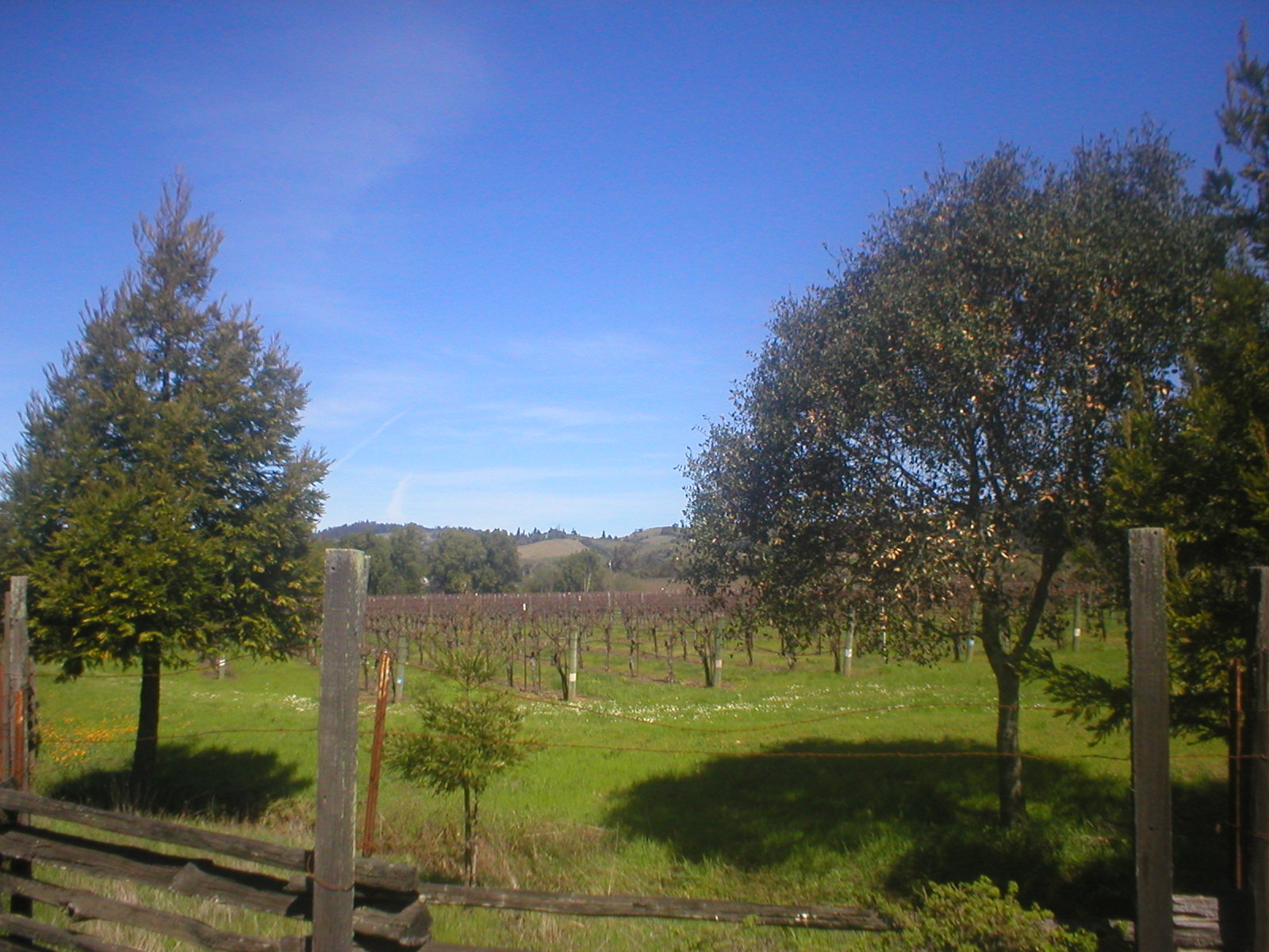 Winery in Mendocino along route 123